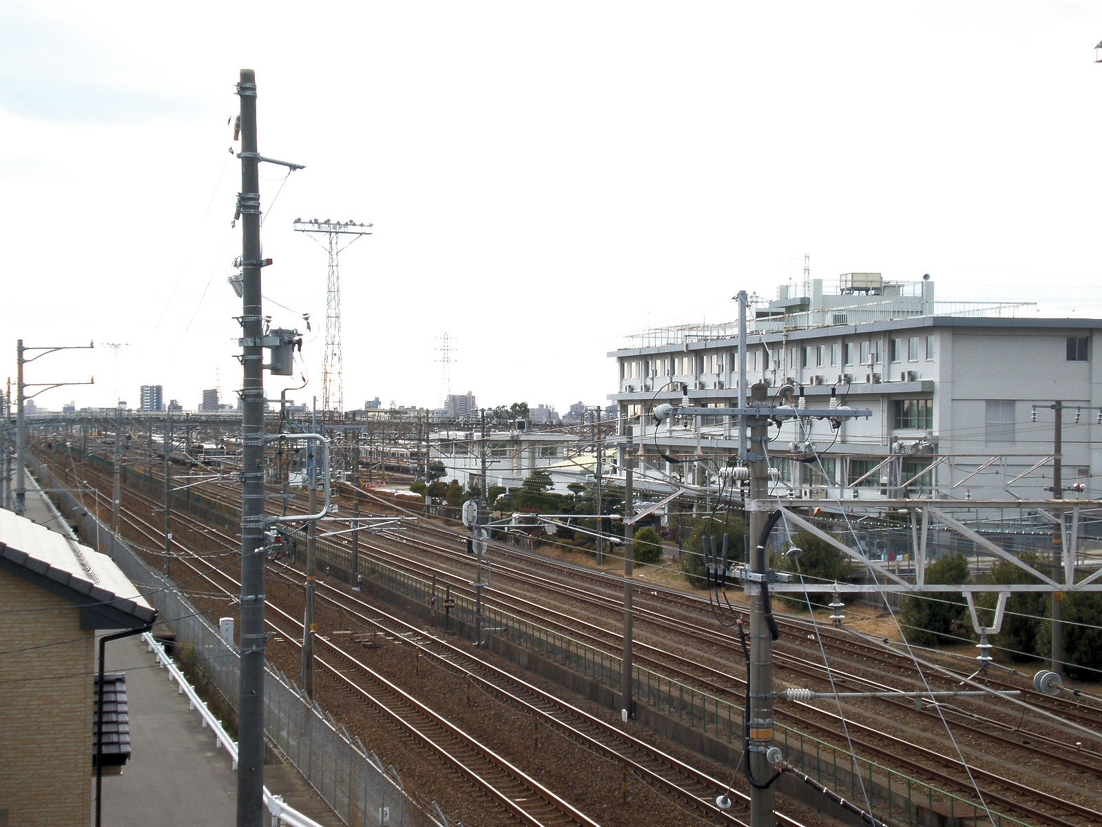 Jinryo Rail Yard (Jinryo Sharyoku) in Kasugai City, Aichi Prefecture, Japan